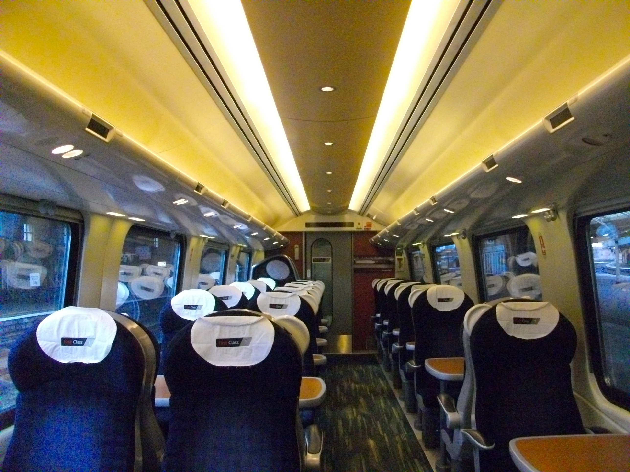 The interior of First Class in a DMFO vehicle aboard a Cross Country Class 221 'Super Voyager' DEMU train